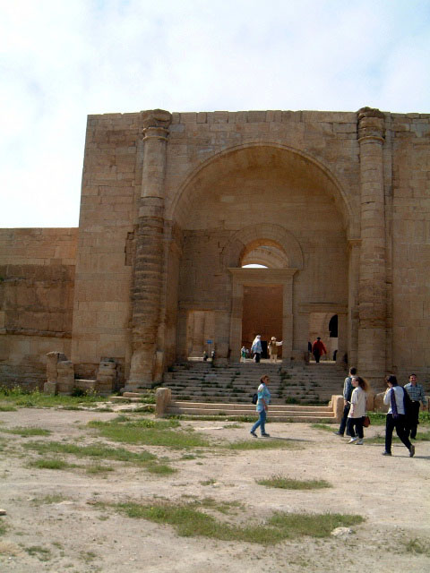 an Ancient Iwan (or ivan, i.e. barrel vault) from Hatra, built c. 50 AD.